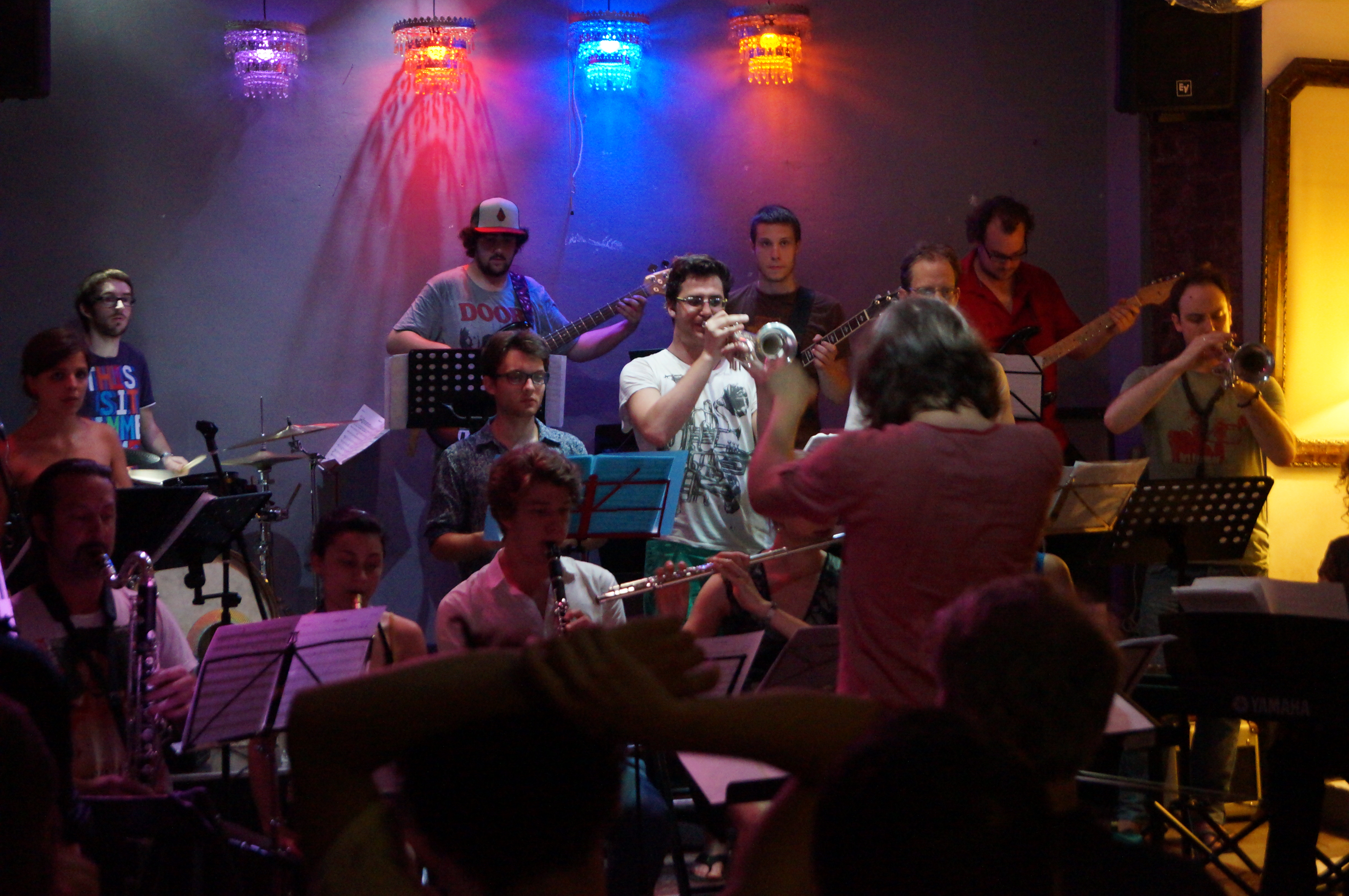 Ensemble concert of the Vienna Music Institute